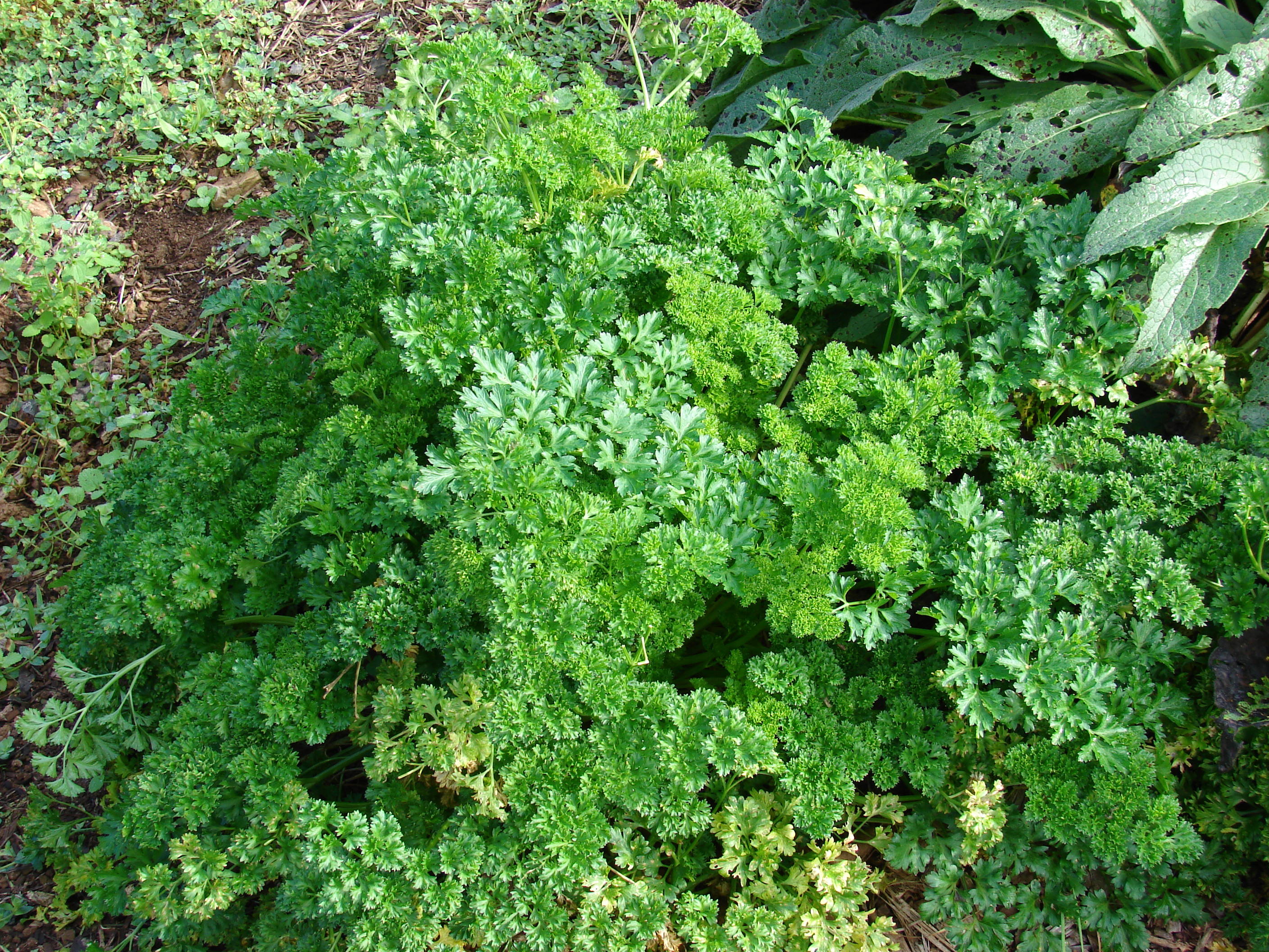 Petroselinum crispum (habit). Location: Maui, Olinda